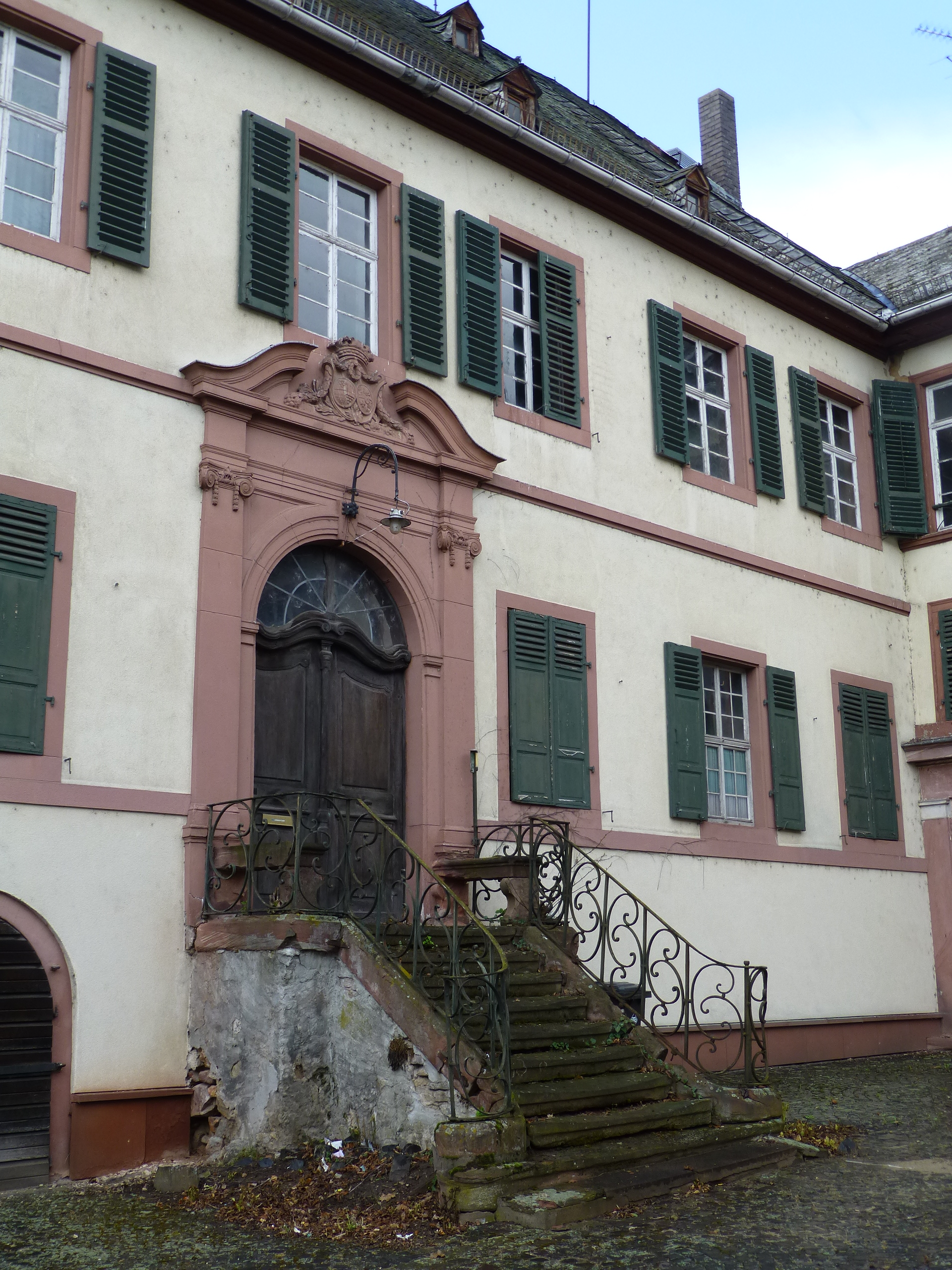 View from Oberstrasse N°19, Rüdesheim am Rhein, Hesse. Schloss Groenesteyn in need for repairs!